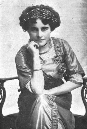 Iva Bigelow Weaver, from a 1912 publication. A white woman with dark hair, seated, leaning forward with elbow on opposite knee, wearing a shiny dress.